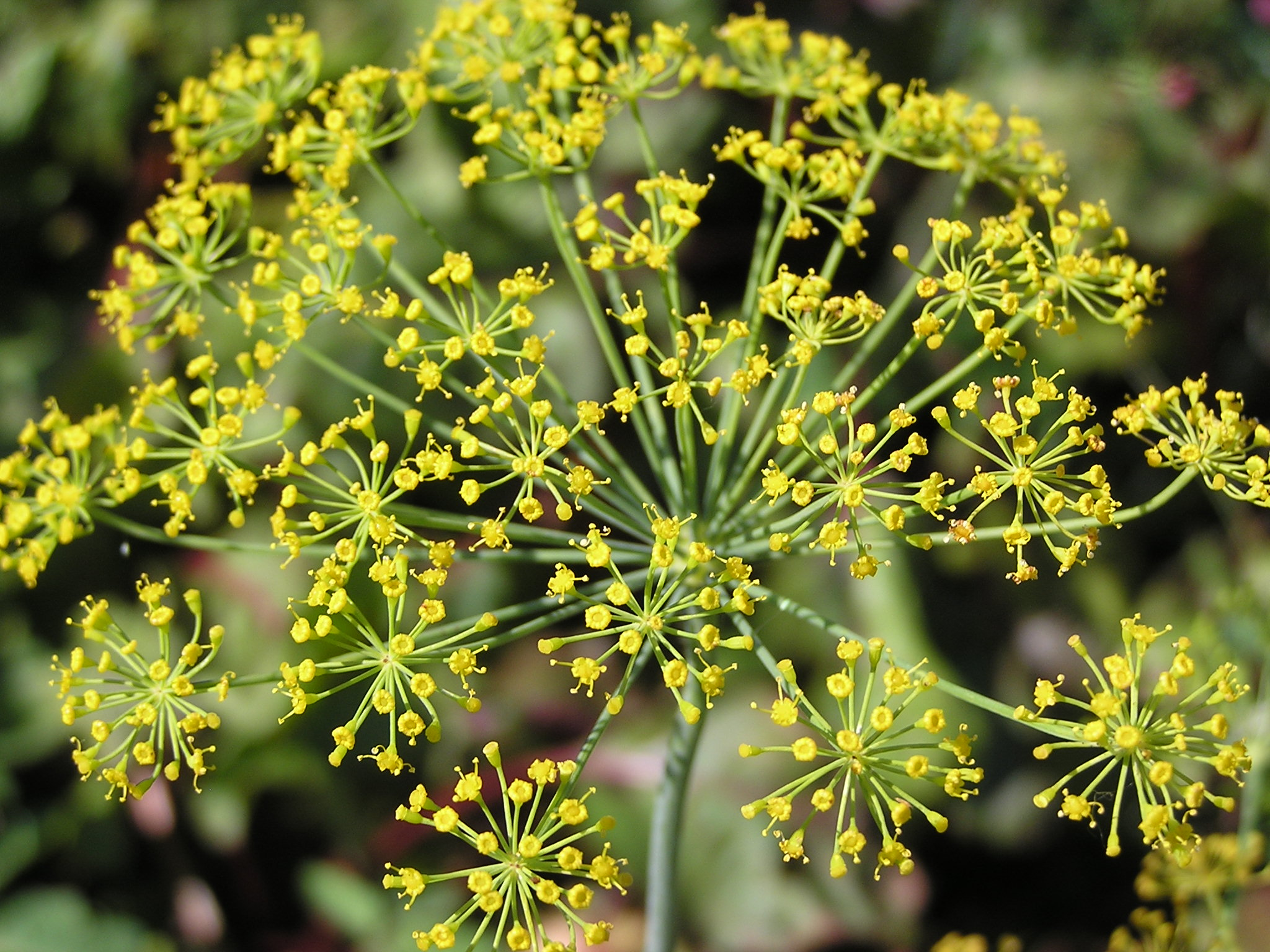 flowers of Anethum graveolens